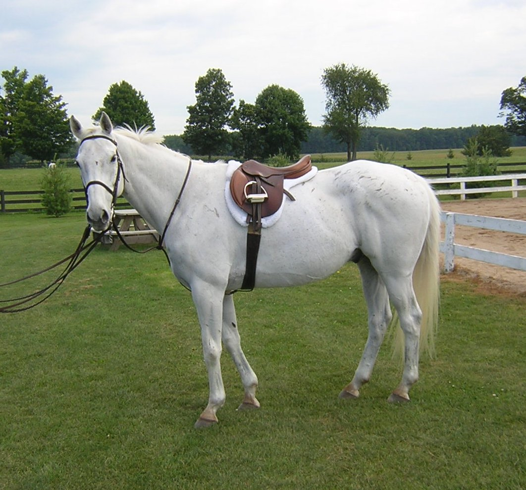 "Bailey", a thoroughbred gelding (ex-race horse)